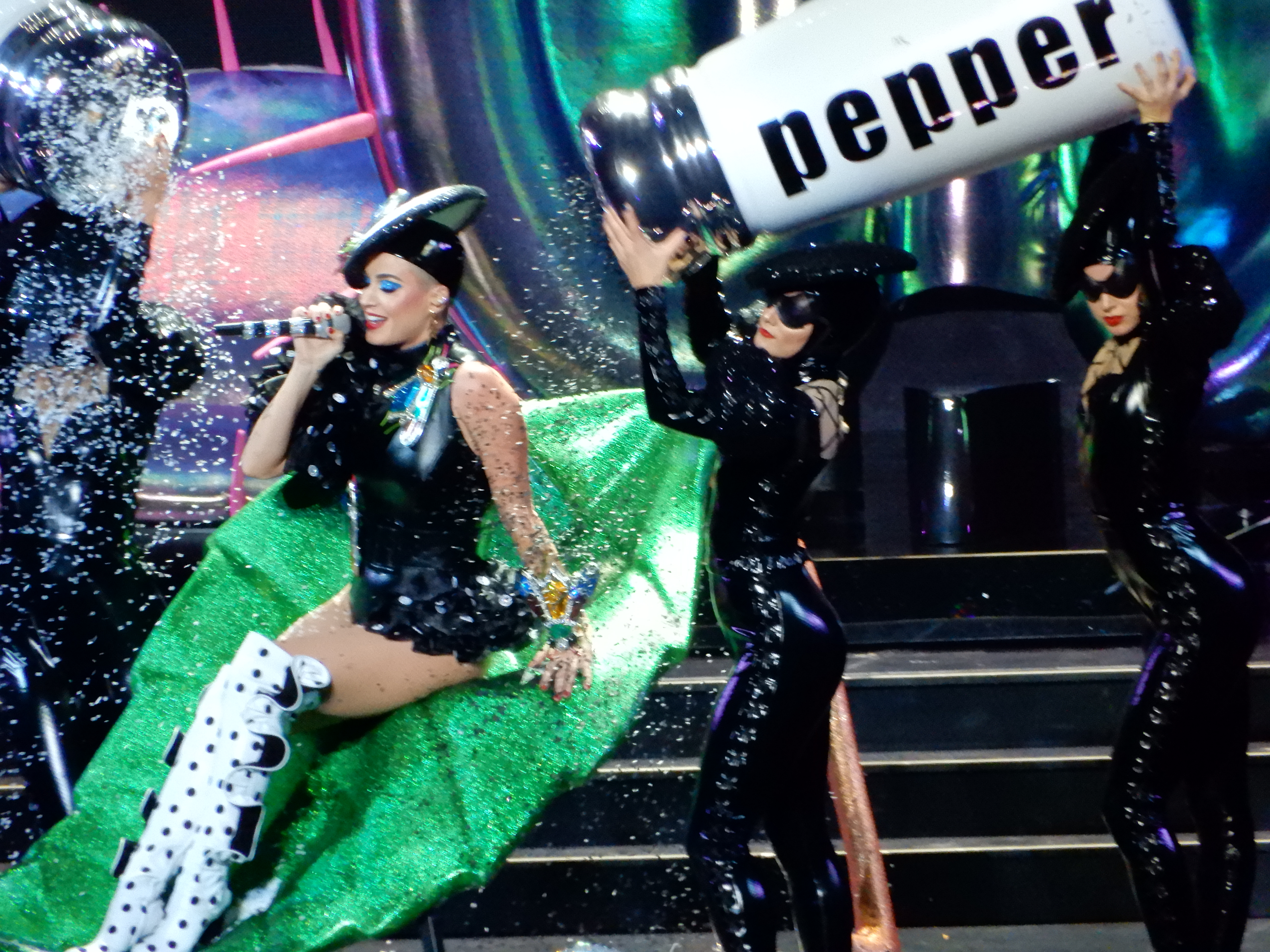 Katy Perry at Madison Square Garden